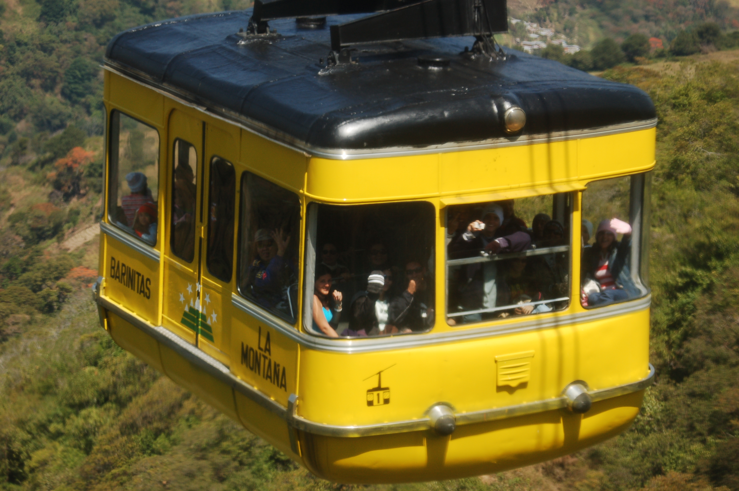 Author: Pascual De Ruvo. Merida Cable Car, Barinitas - La Montaña.